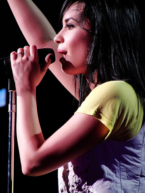 Demi Lovato perfoming "Here we Go Again" in live